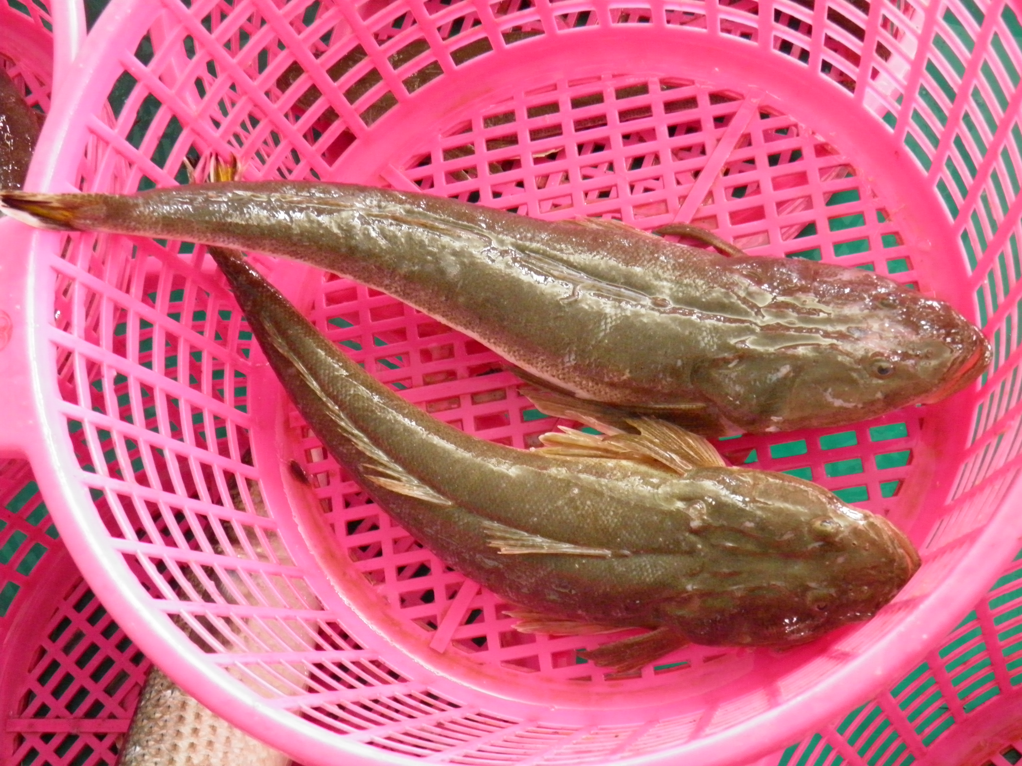 Platycephalus indicus from fish market in Taiwan